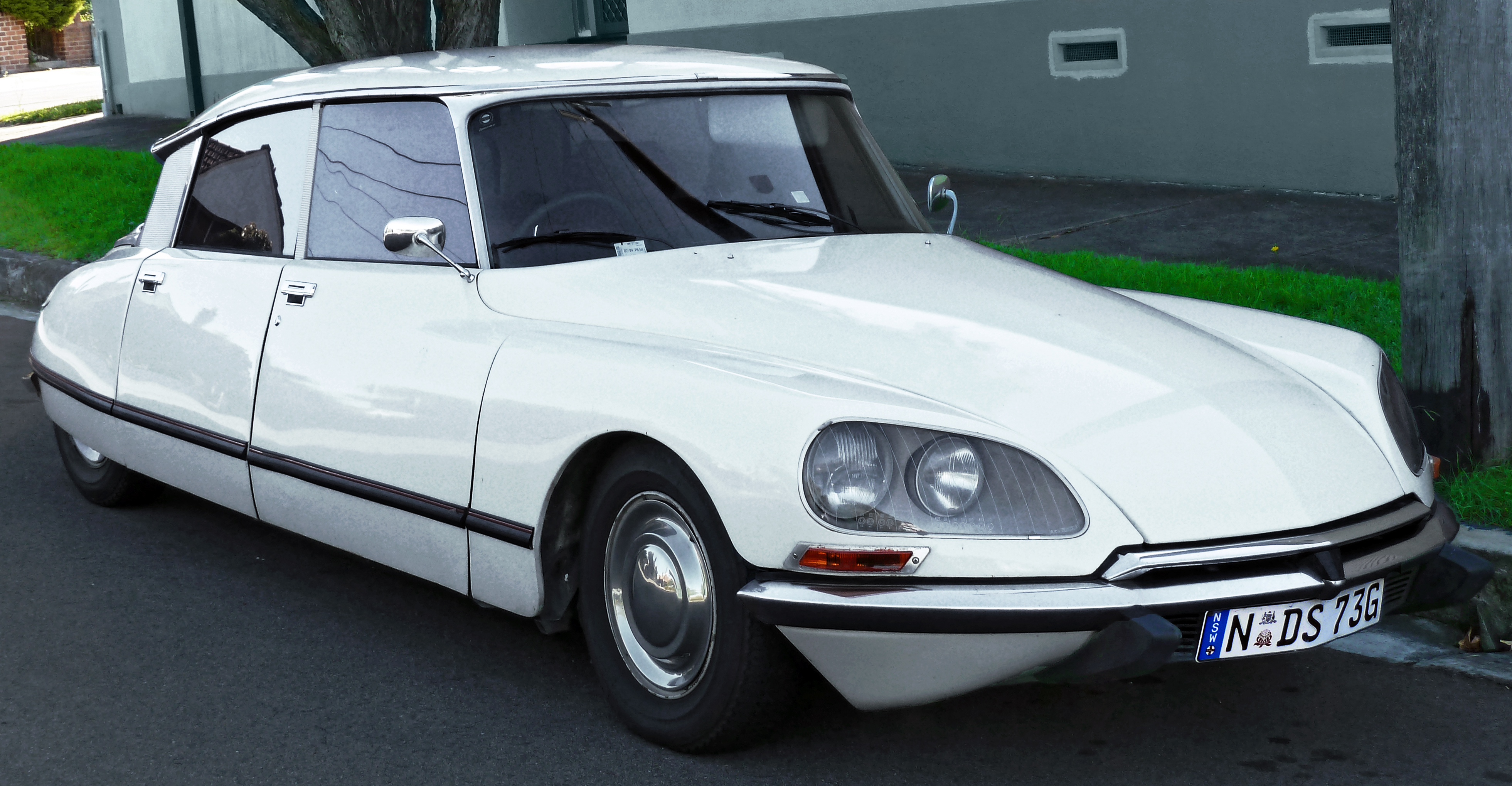 1973 Citroën D Spécial sedan. Photographed in Haberfield, New South Wales, Australia.